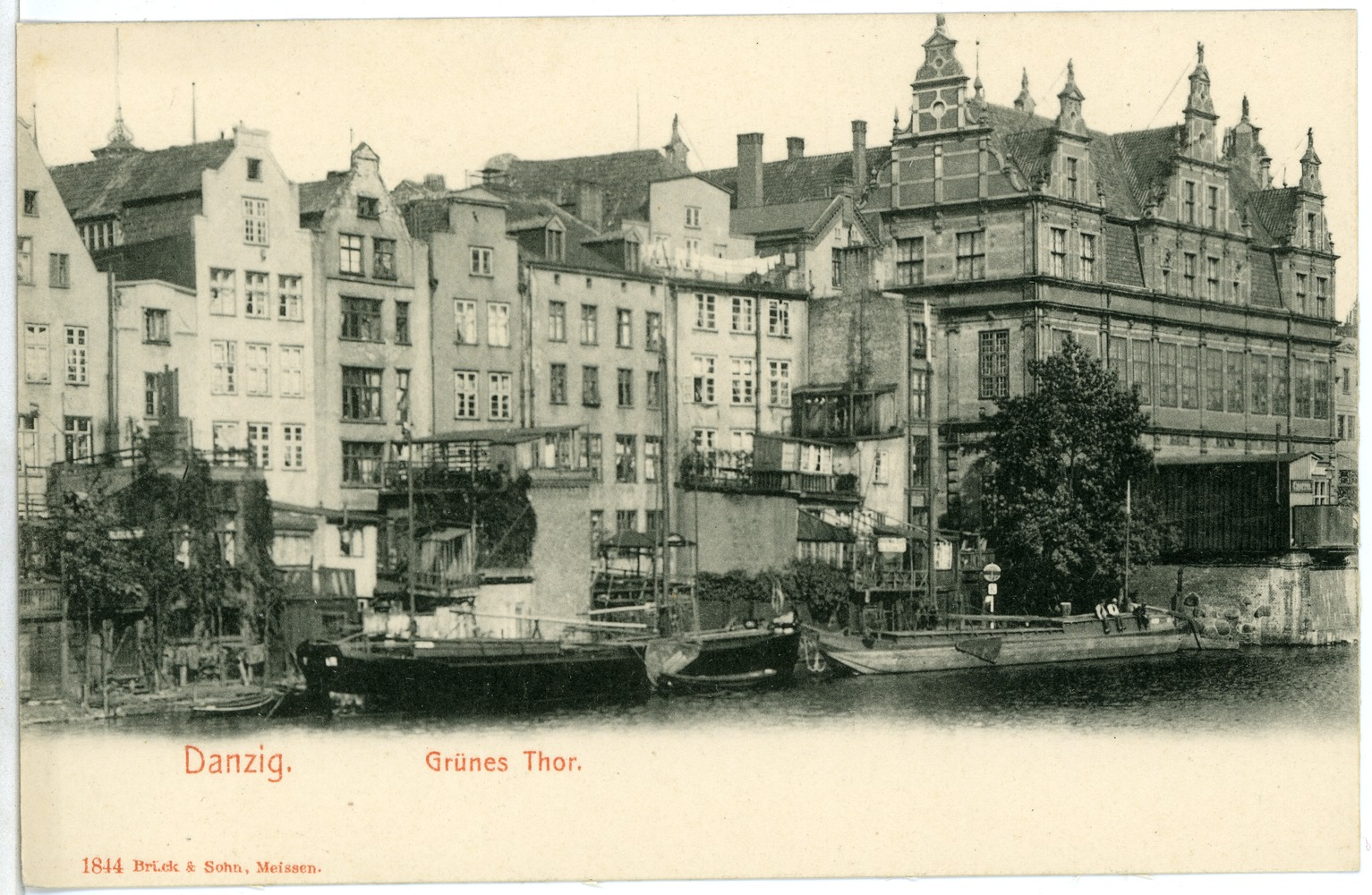 This postcard is from publisher Brück & Sohn in Meißen ( This postcard has a unique number 01844 and is available in a higher resolution at the publisher. This images was uploaded in a cooperation project between Wikipedians and the publisher.